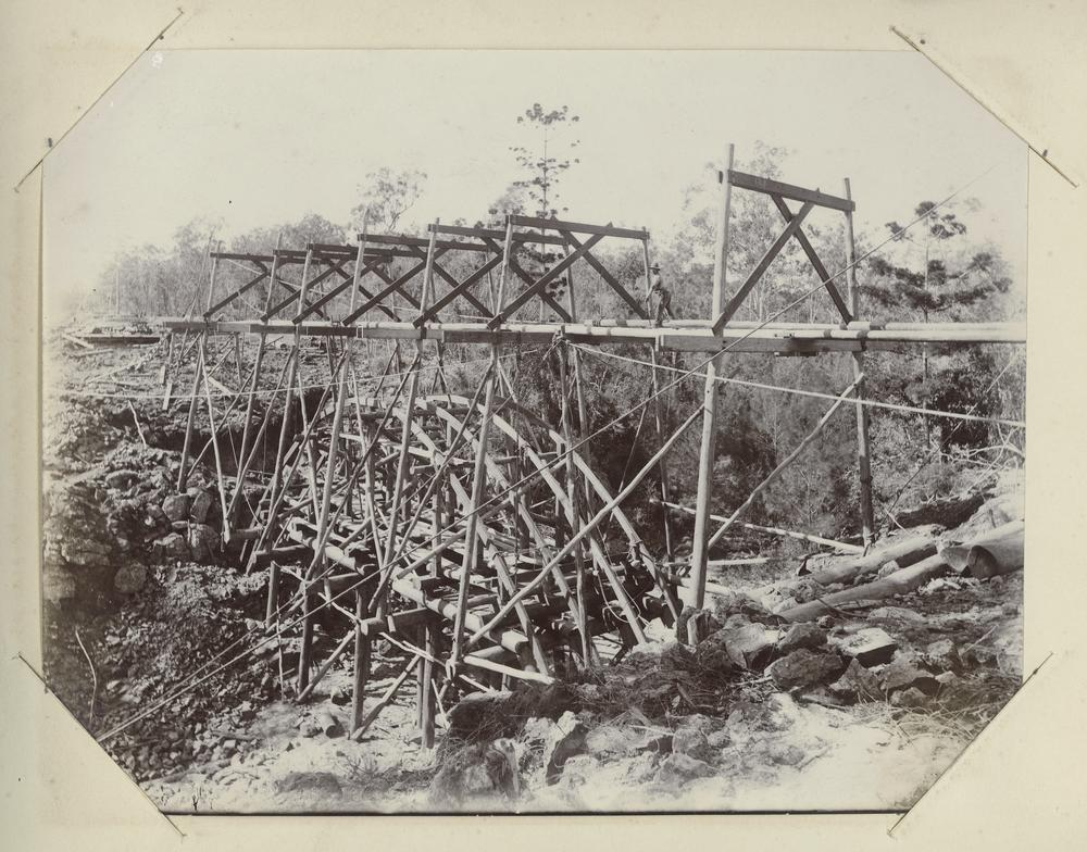 Looking down on the scaffolding during construction of Deep Creek railway bridge, Gayndah district, 1905 Deep Creek railway bridge was constructed as part of the railway line built from Degilbo to Wetheron.